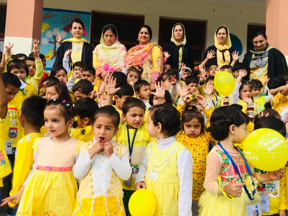 Public Schools and Colleges Jutial Gilgit-Prep Wing